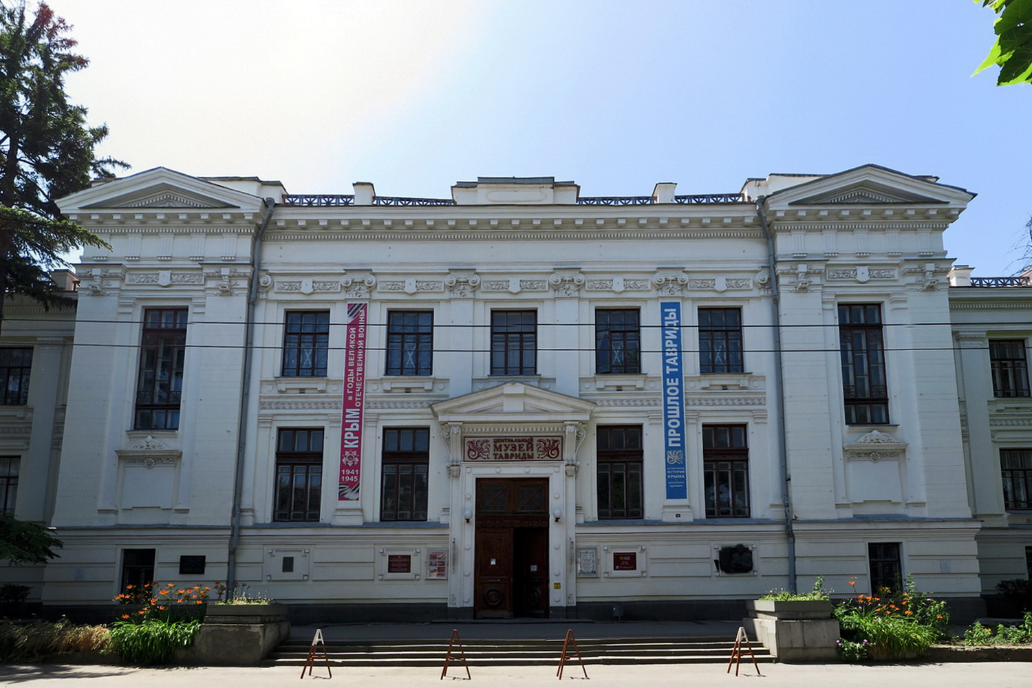 Simferopol, Central Museum of Taurida